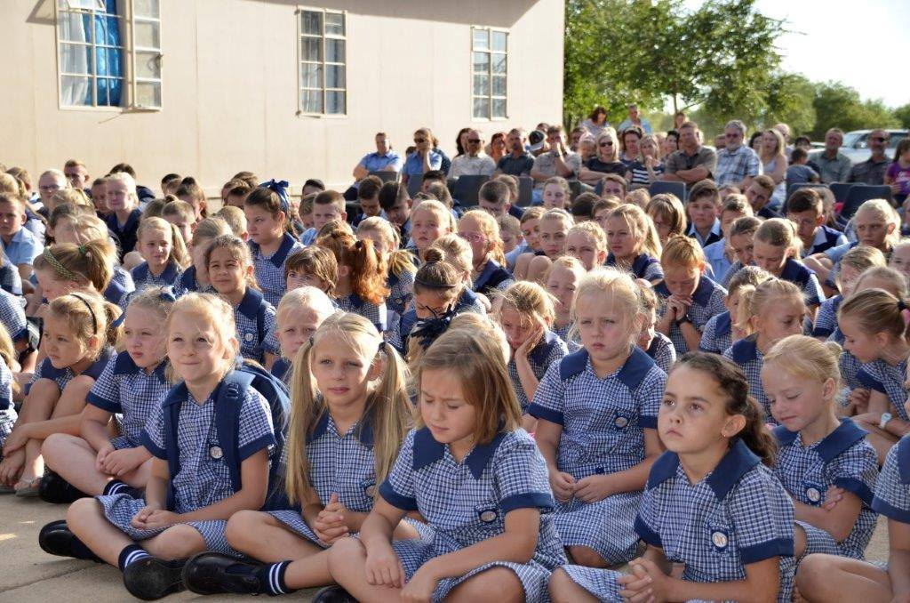 First day of the school year, CVO Orania